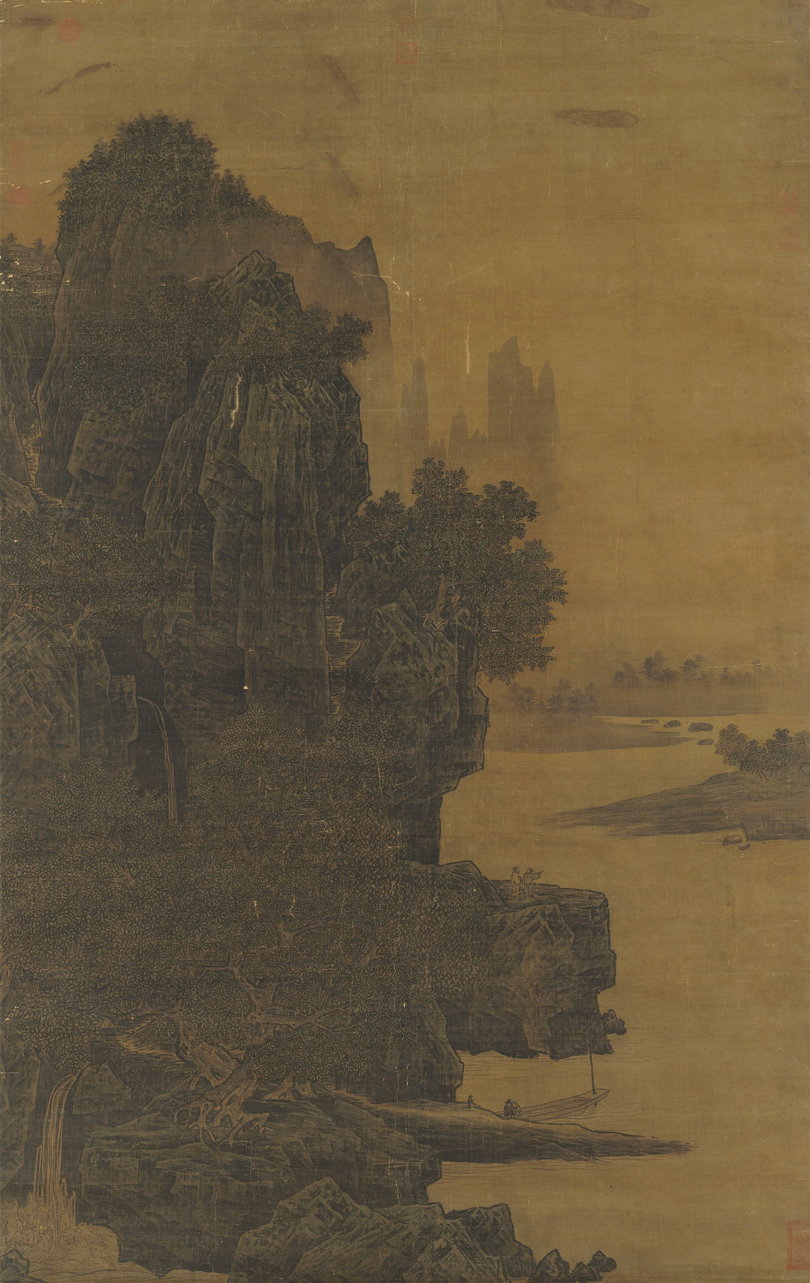 Xiao Zhao, A Tower on the Halfway of A Mountain, 12th century, NPM Taipei o Buildings on a Mountainside 1. Hsiao Chao, Sung dynasty 2. Hanging scroll, 179.3×112.7cm On one side of a central precipice is Hsiao Chao's signature. Legend has it that Hsiao was once a bandit in the Taihang Mountains in the late Northern Sung until he tried to rob the fleeing court artist Li Tang, who taught him instead how to paint. Later, Hsiao entered the Southern Sung Painting Academy. The left side of this work is composed of a soaring precipice with many sharp and craggy rocks. From the central part of the mountain form extends a rocky outcropping, upon which stand two figures talking with each other and appearing to be looking out and admiring the beautiful scenery on the distant banks. This work has already begun to depart from the monumental majesty of Northern Sung landscape paintings, being more similar to the style found in Li Tang's Wind in Pines Among a Myriad Valleys, which presents scenes up-close and focuses on the details and richness of forms. With the solid rocks and misty distant mountains, the beautiful scene effectively contrasts substance and void.